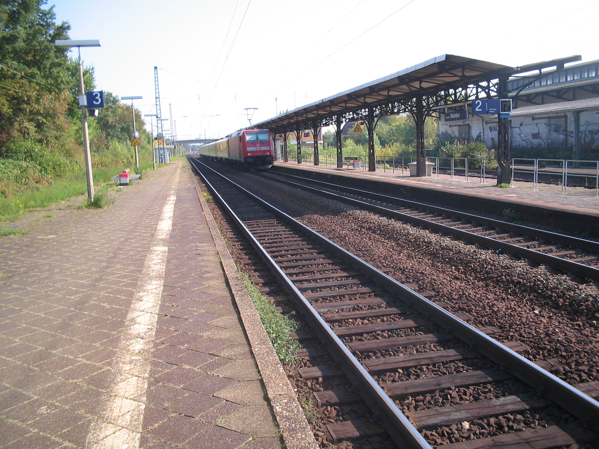 Rail station Frankfurt-Mainkur platforms with departing Regionalexpress to Würzburg